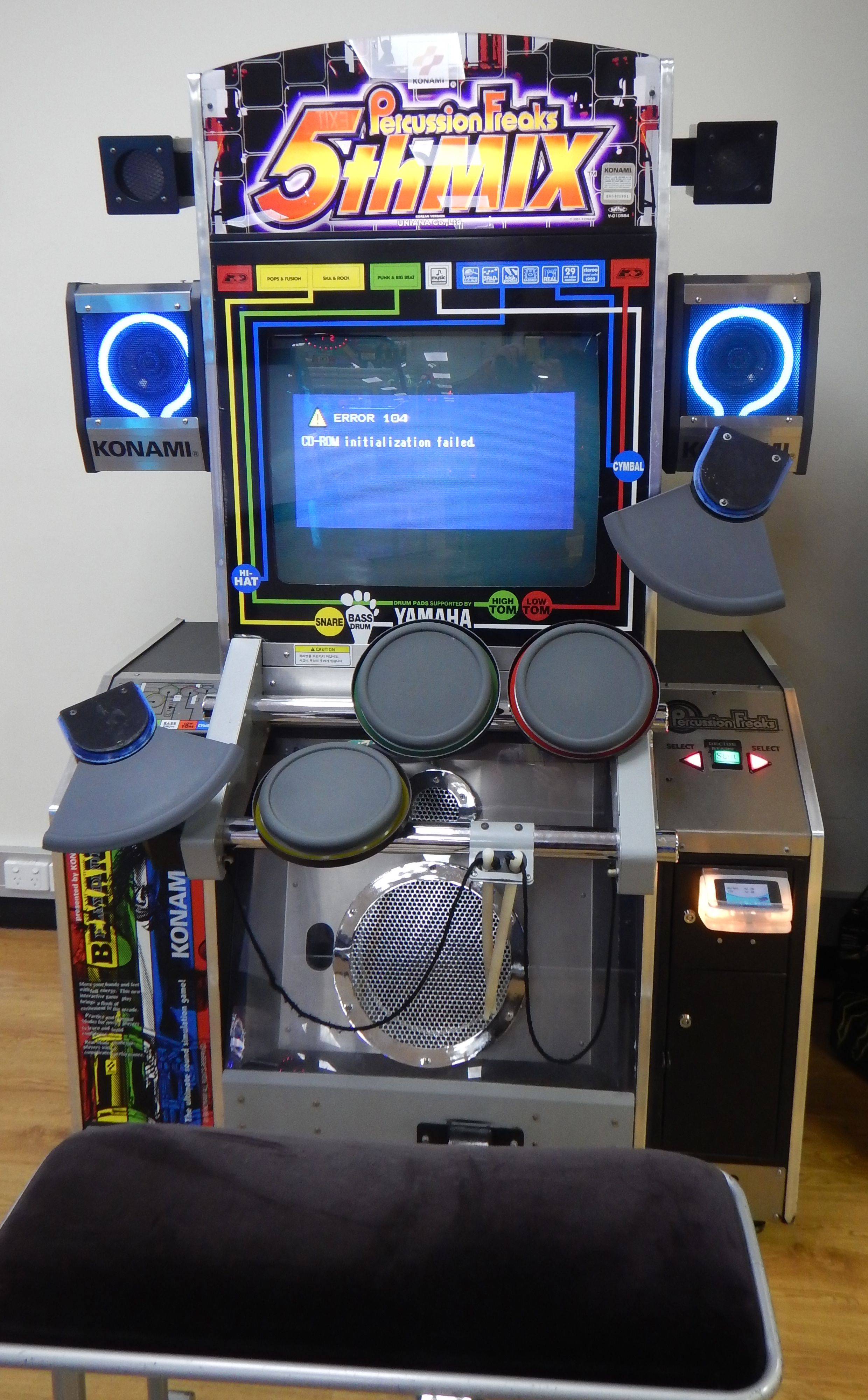 A machine with the name "PercussionFreaks" Instead of "DrumMania".